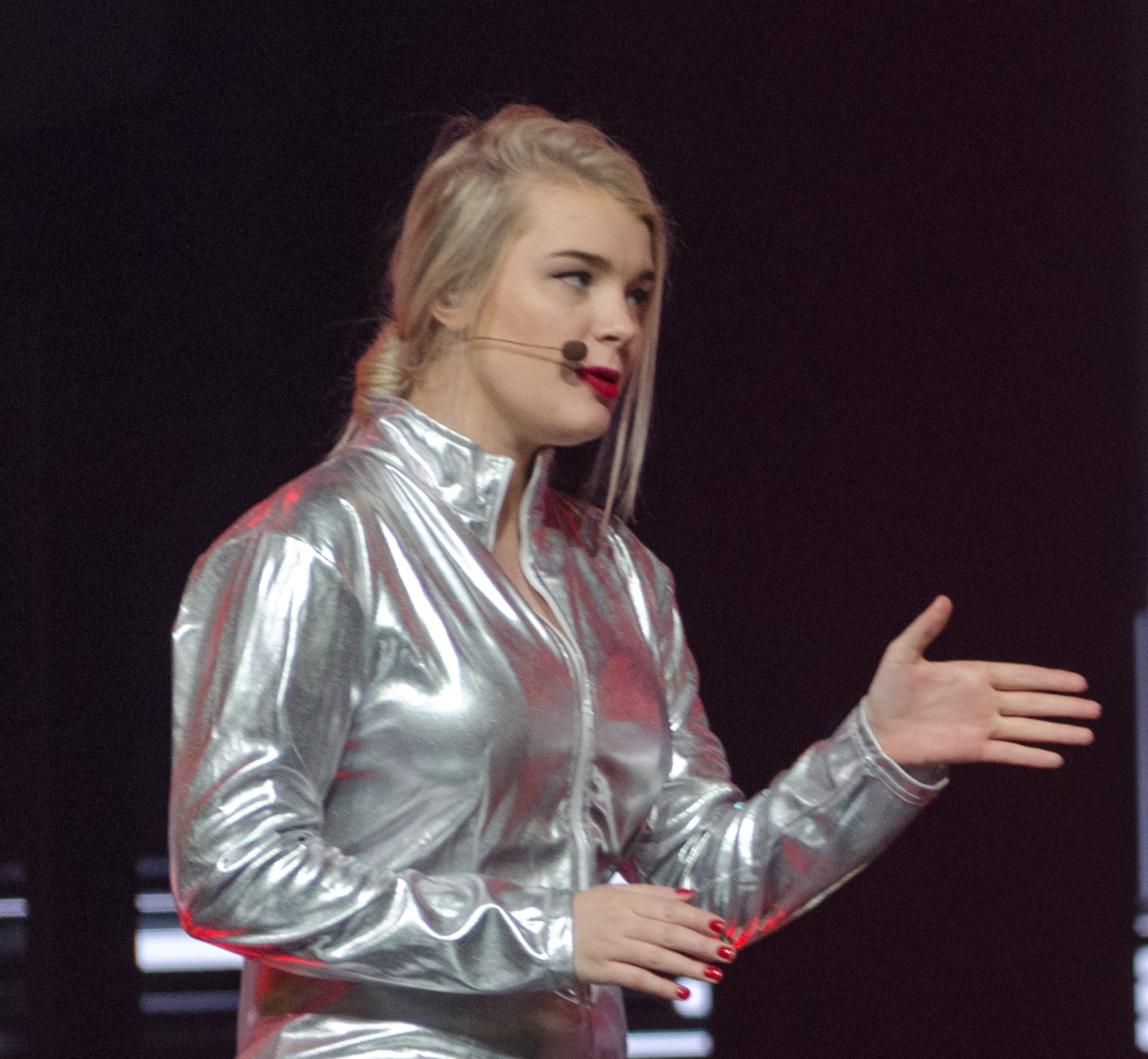 Kristina Petrushina at the Swedish Eurovision Song Contest 2018